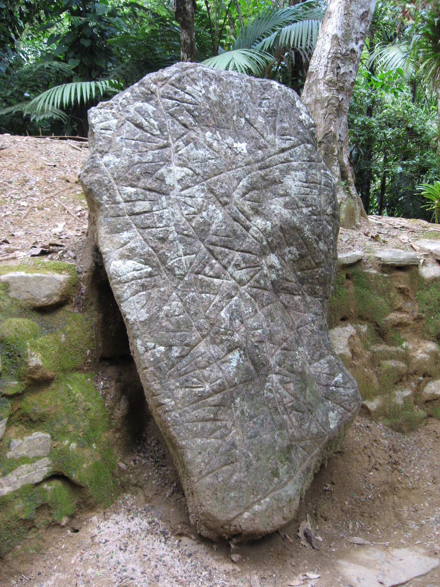 Photo taken by myself (Stan James) and Yael Zwighaft in February 2008 while trekking at the Lost City.